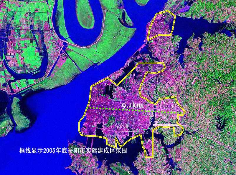 Sat Img of Yueyang City(HN Prov.,CHN)